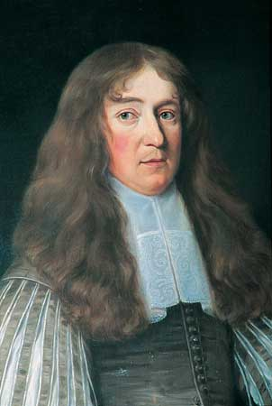 Sir Winston Churchill 1600